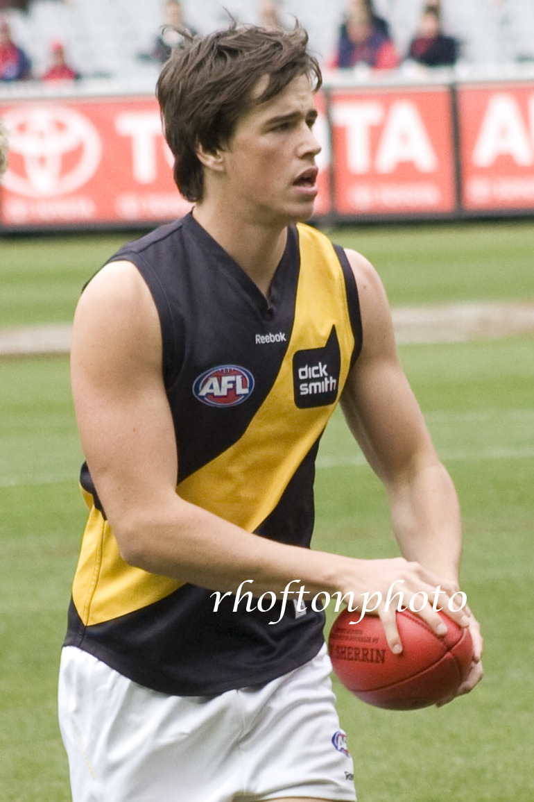 Richmond Vs Melbourne Sunday August 2nd MCG Pre-game warm up